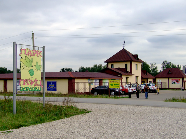 Park of Birds "Vorob'i"